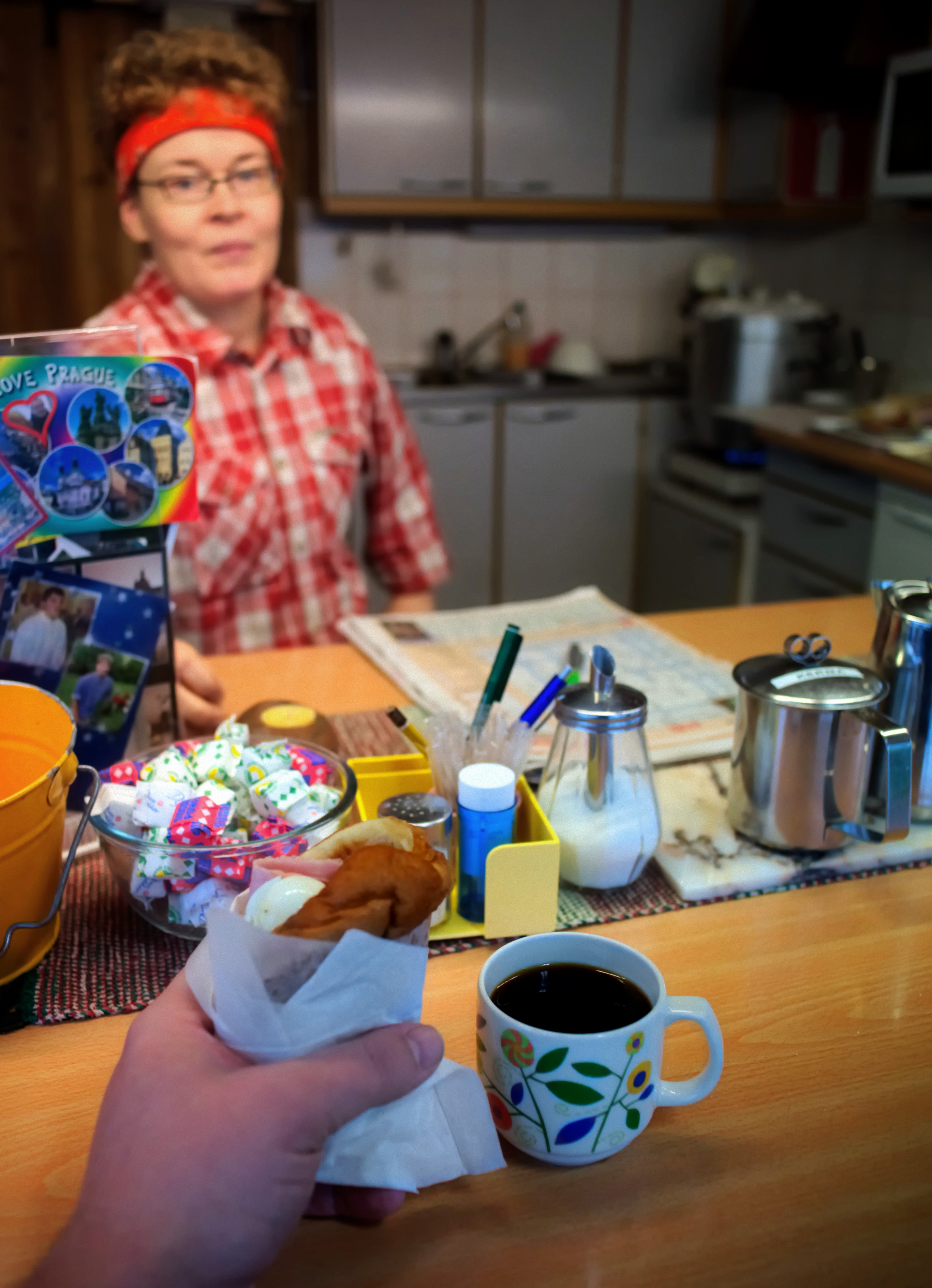 Traditional food in Lappeenranta.